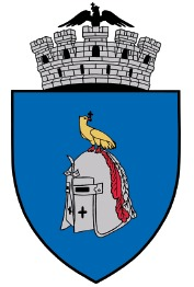 Coat of arms of the city of Câmpulung, Argeș County, Romania